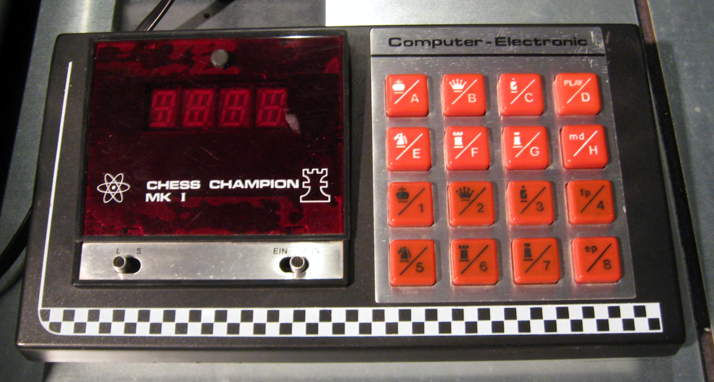 Computer equipment - Chess Champion MK I